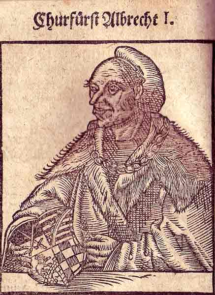 Duke Albrecht I of Saxonia, woodcut about 1550